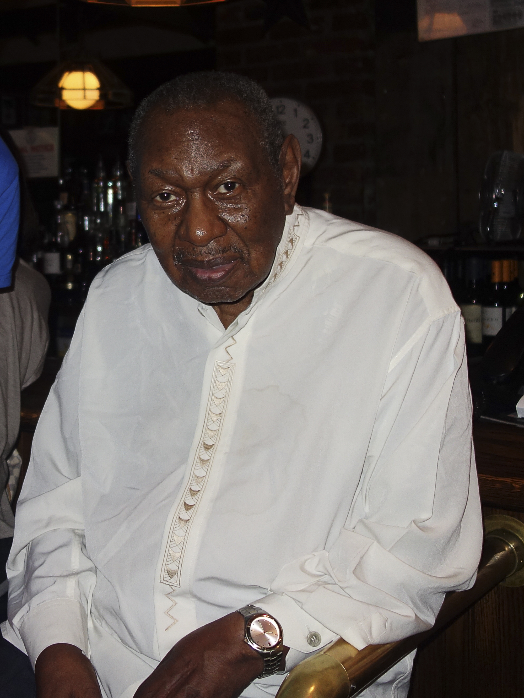 Freddy Cole at Blues Alley (Washington DC)